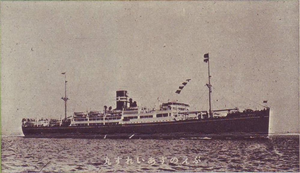 O.S.K. Line "Buenos Aires Maru"(1929)